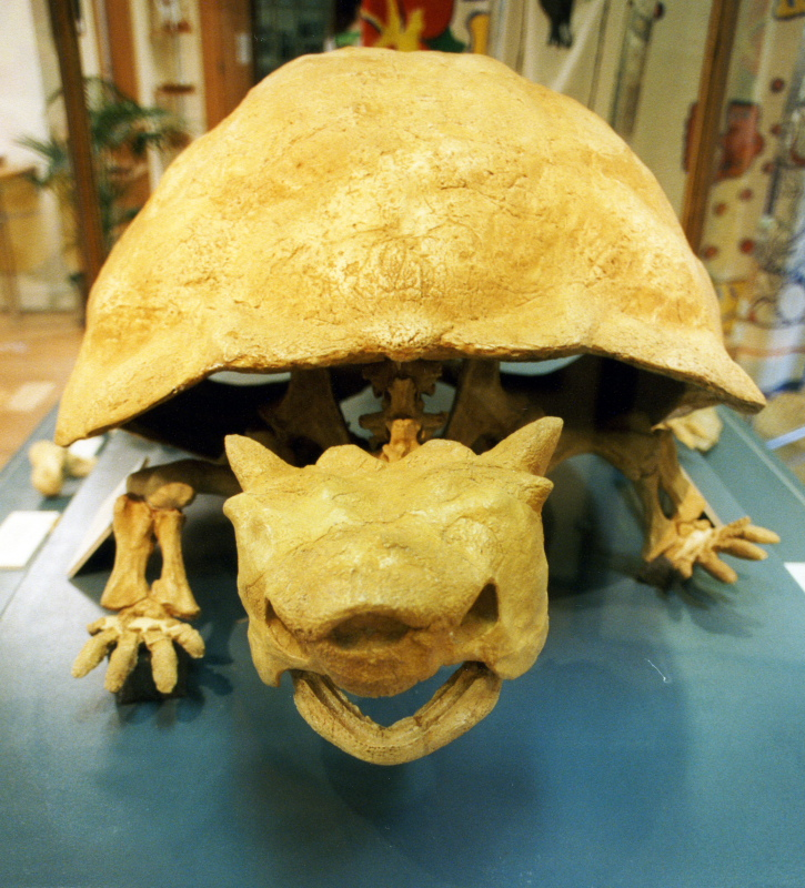 Horned turtle Meiolania platyceps (extinct). Fossil specimen in Lord Howe Island museum.